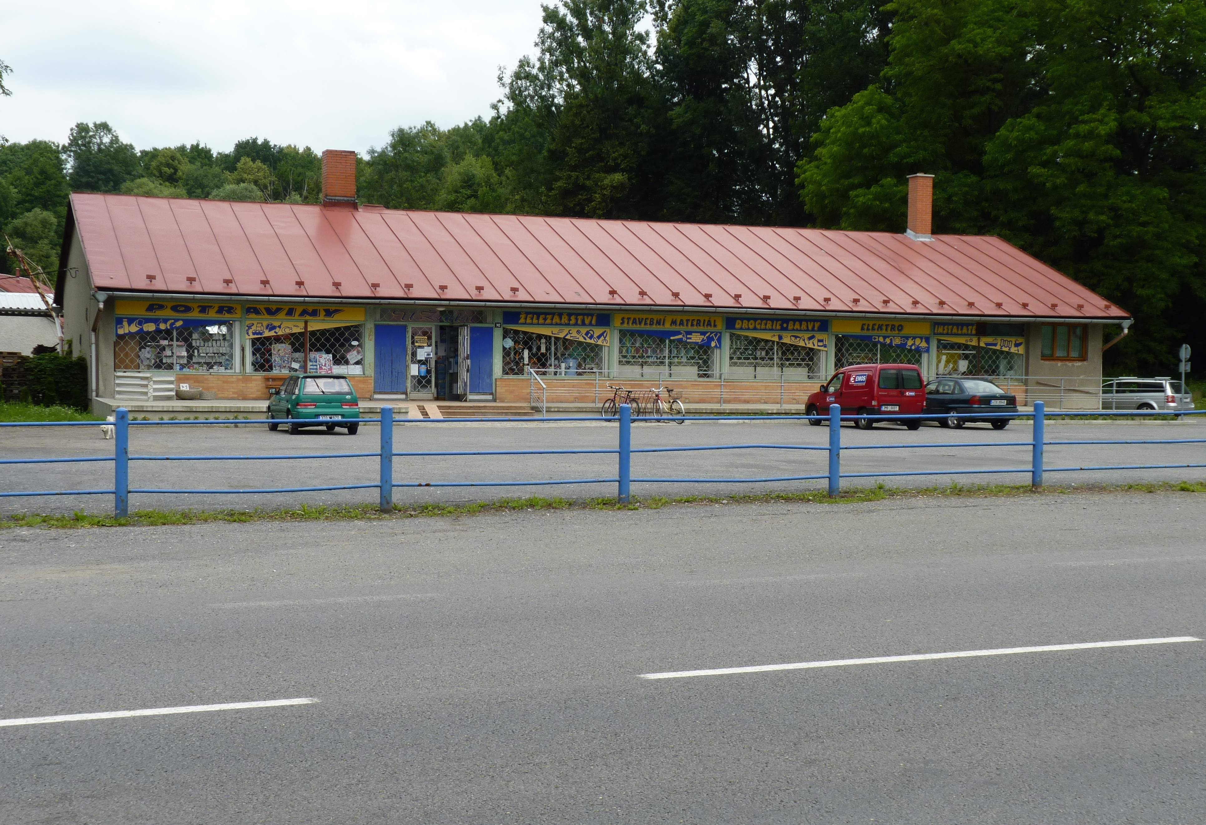 Vojkovice. Frýdek-Místek District, Moravian-Silesian Region, Czech Republic